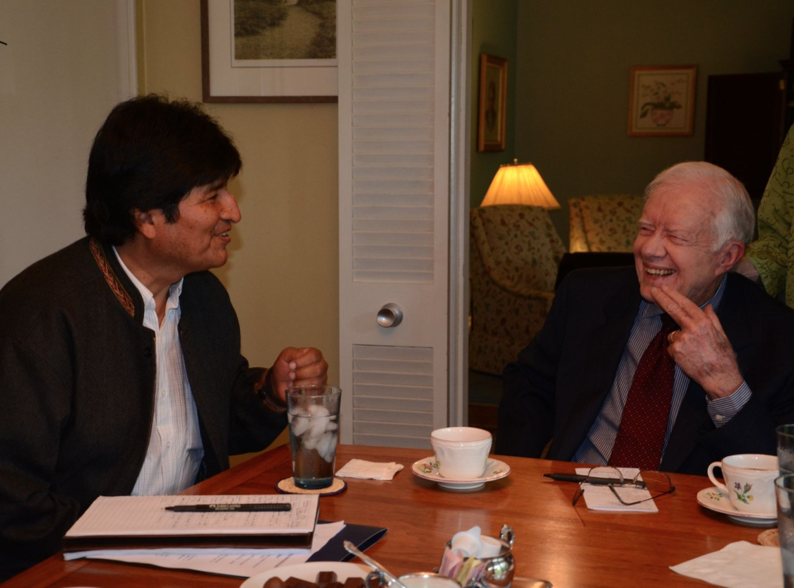 President Evo Morales and president Jimmy Carter in La Paz, during a three-days visit of Carter to Bolivia.